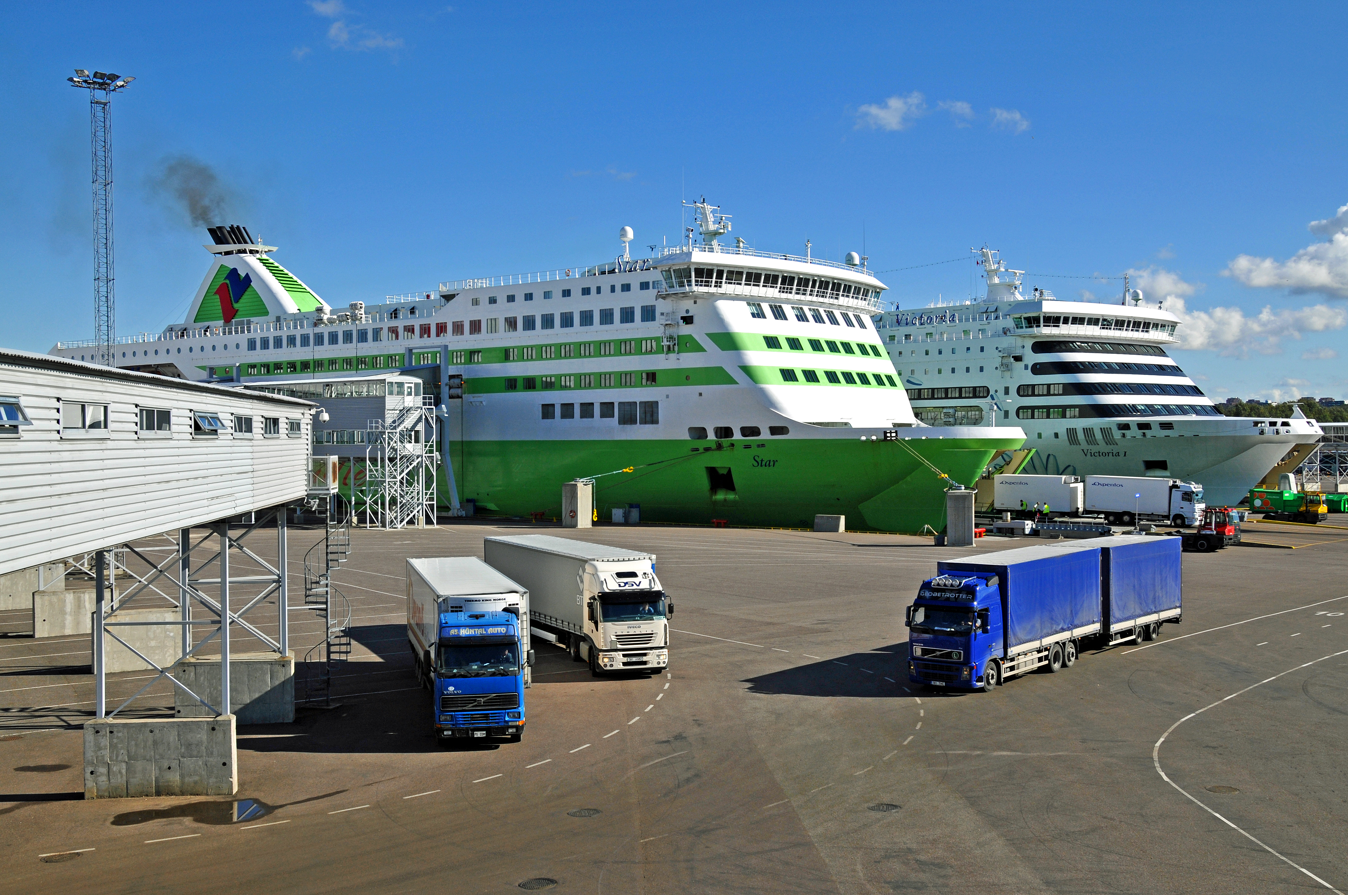 Cruise ship (left) used to get to Tallinn, Estonia.